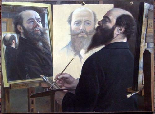 French painter and caricaturist Alfred Le Petit